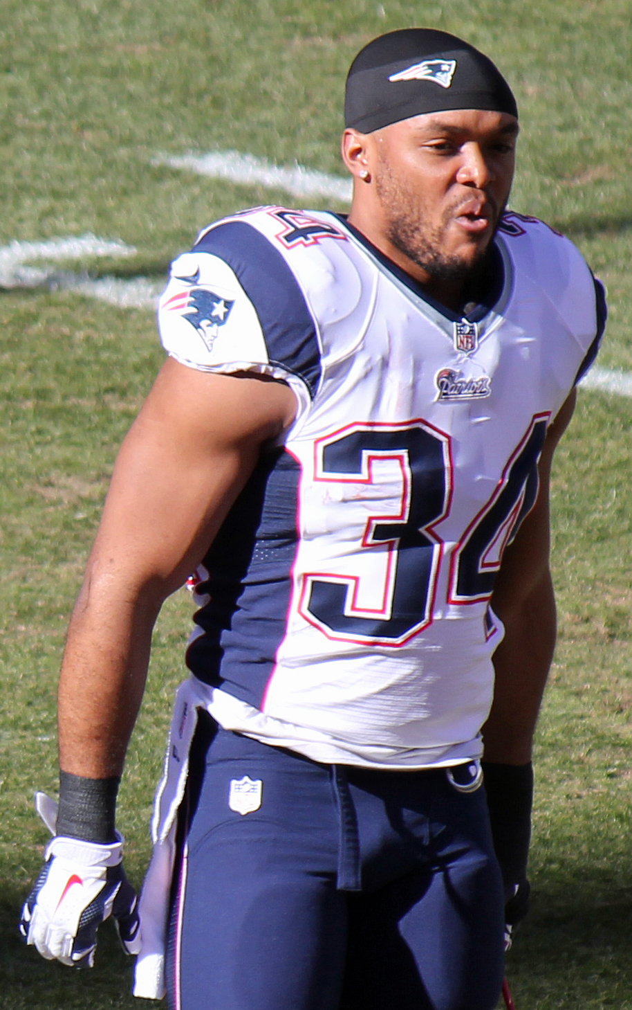 Shane Vereen, a player on the National Football League.